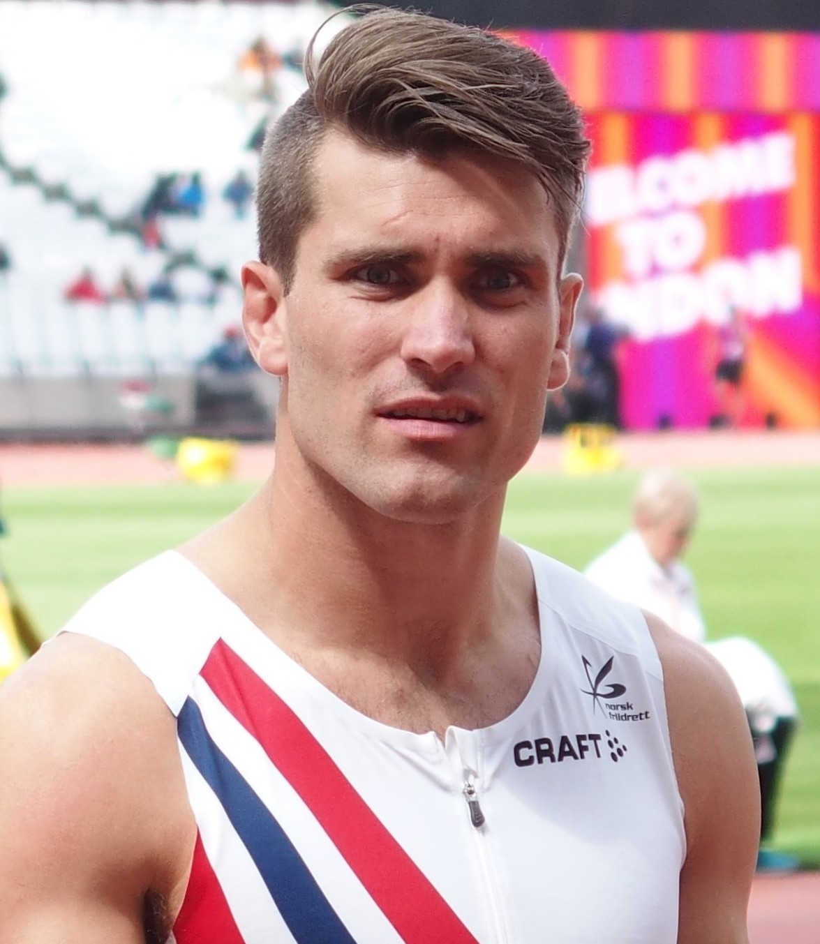 Martin Roe